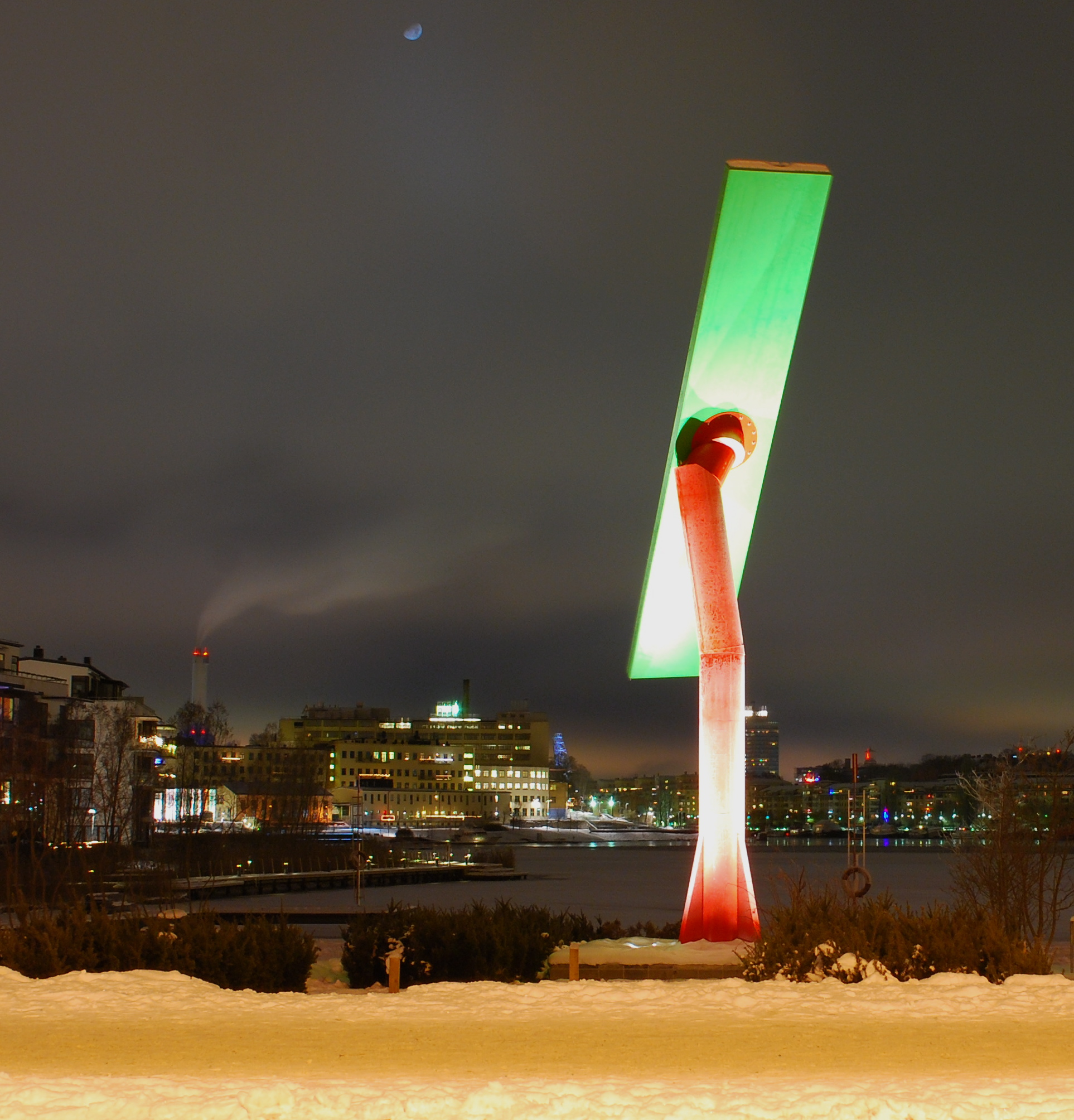 "Instabil", artwork by Swedish artist Lars Englund. Hammarby sjöstad, Stockholm.